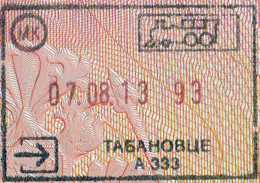 Stamp of FYR Macedonia in Russian passport